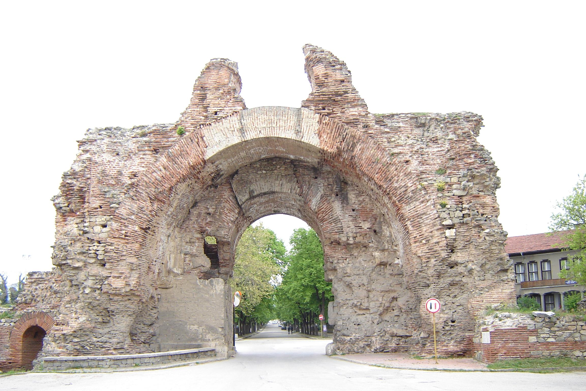 The main gateway of the Hissarya Fortress